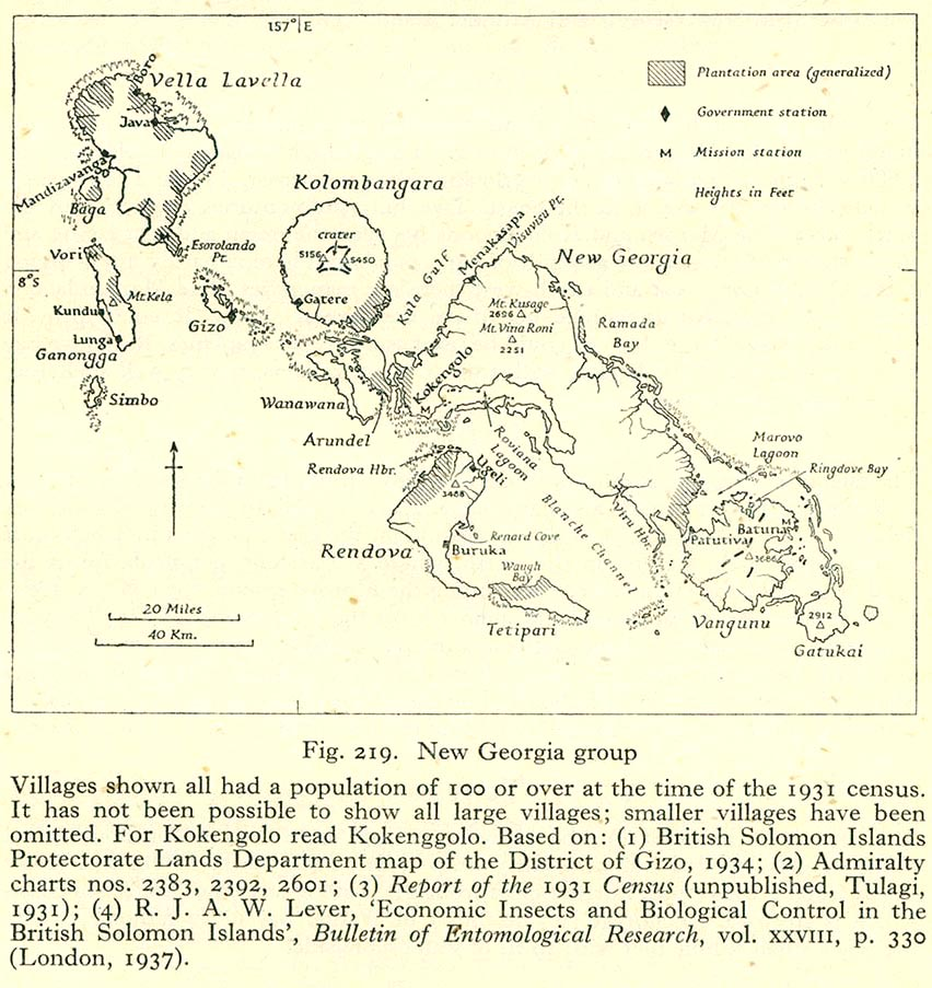 Map of New Georgia Group, Western Province, Solomon Islands, Melanesia, South Pacific Ocean